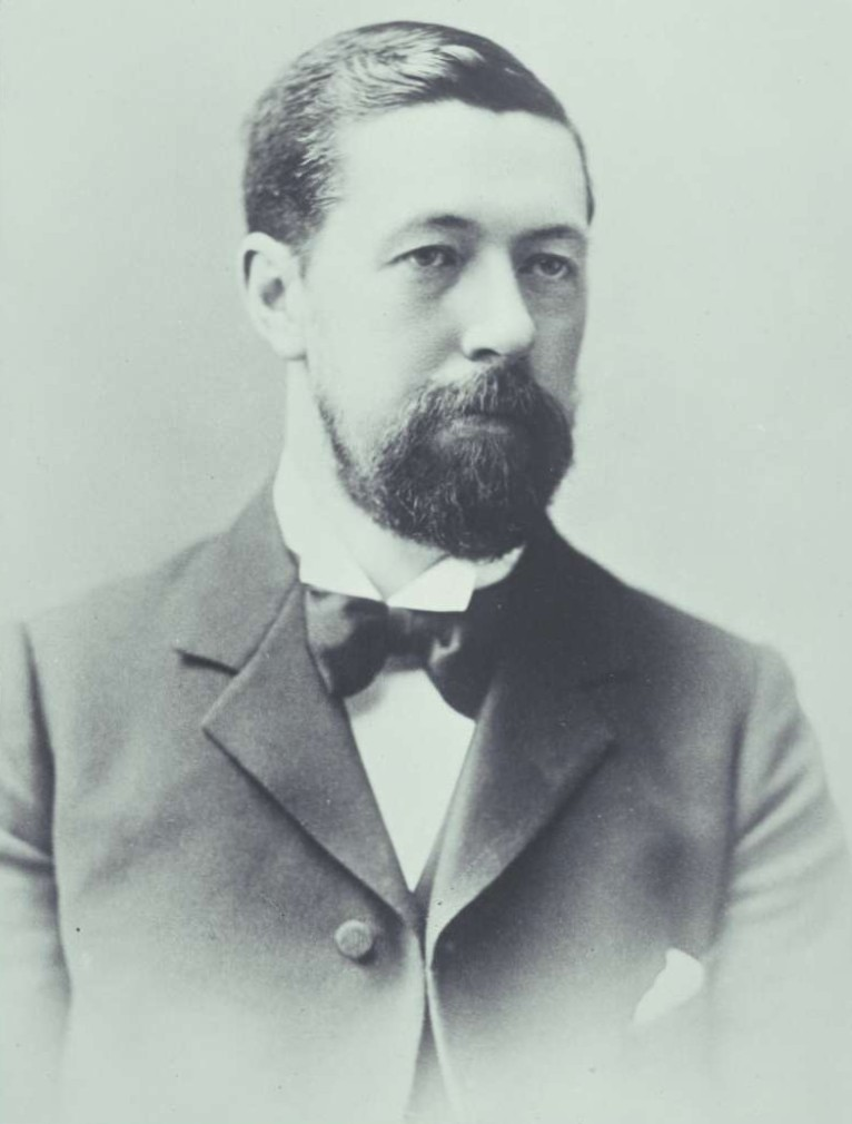 Matthew John Clarke From the 1898 Australasian Federal Convention Album.